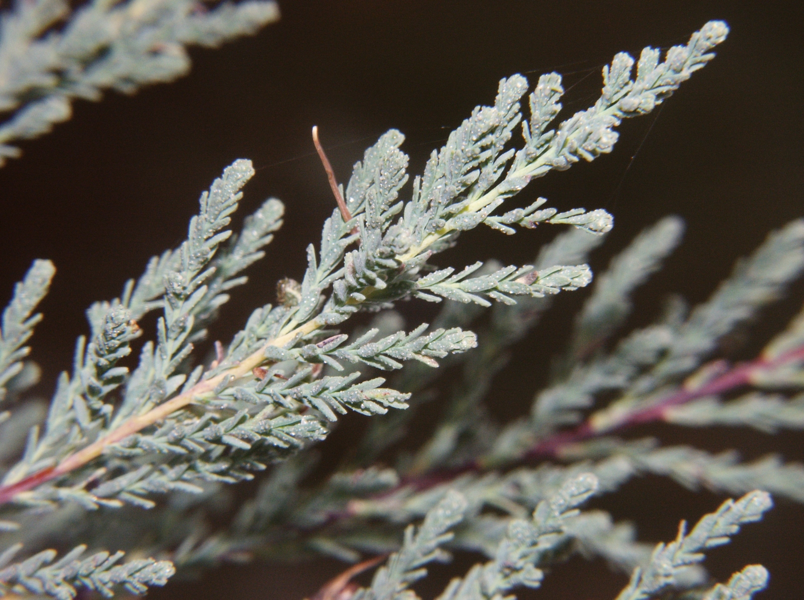 Myricaria germanica, South Tyrol, Italy